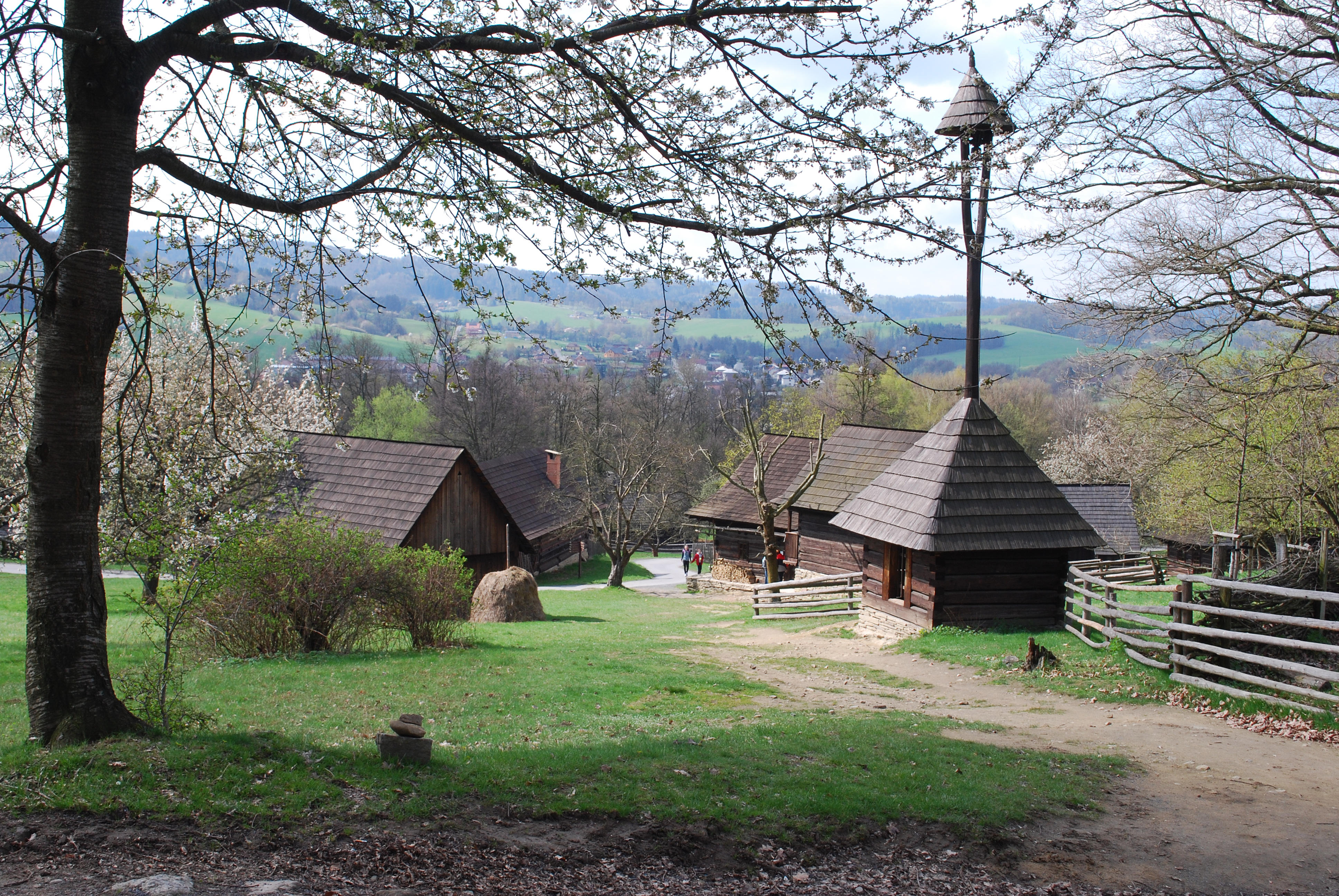 Bell tower from Luzne in Valašské muzeum v přírodě